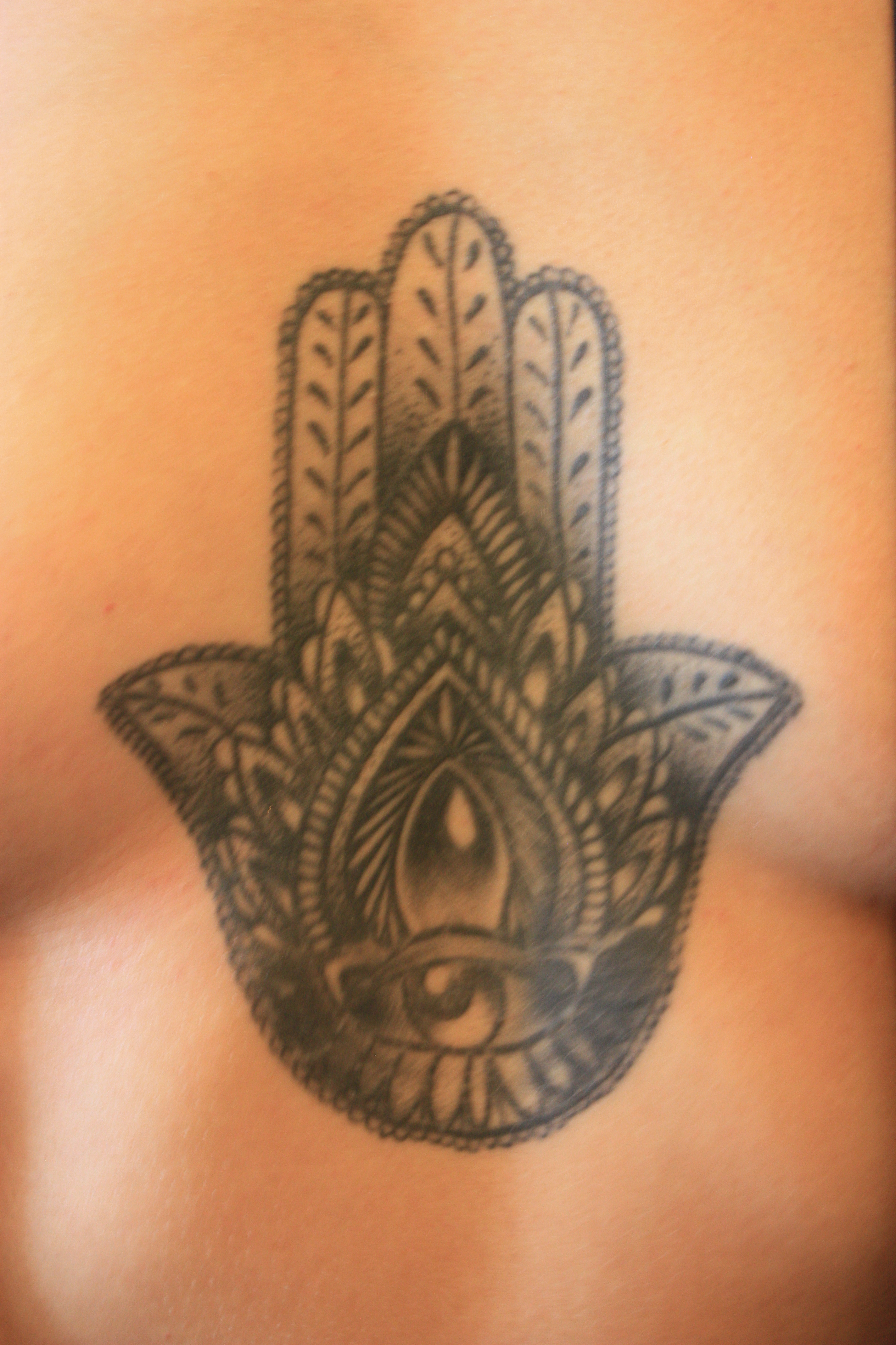 Tattoo of Hand of Fatima between the breasts of model Casini